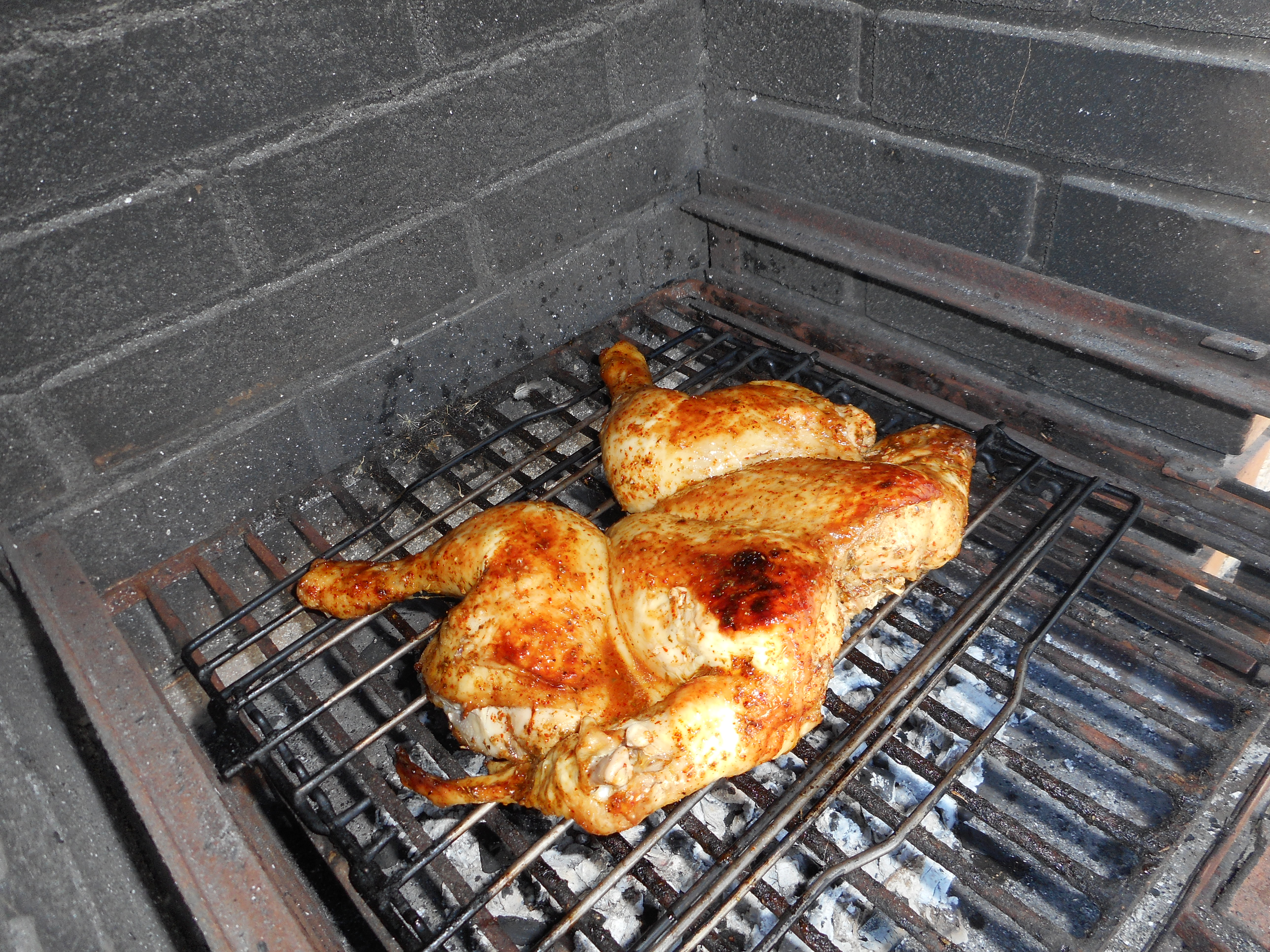 Chicken Piri piri (Frango Piri piri) is a Portuguese dish of barbecue chicken in which Piri piri peppers are sometimes used to flavour the bird usually in the form of a marinate. In Portugal, Frango Piri -piri churrasco is a common grilled chicken dish that is prepared at many churrascarias in the country. Portuguese churrasco and chicken dishes are very popular in countries with Portuguese communities, such as Canada, Australia, the United States, United Kingdom, Venezuela and South Africa.